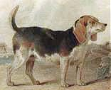 Late 18th/Early 19th century Beagle